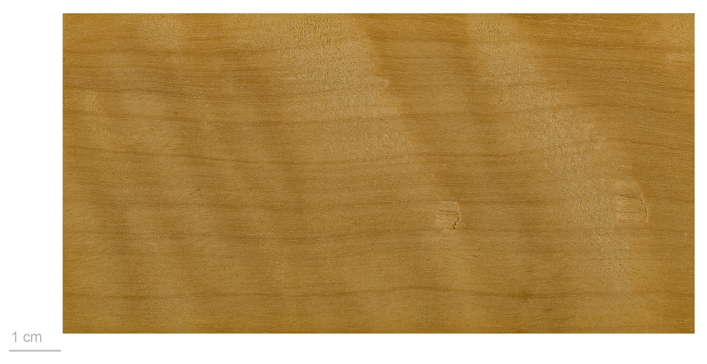 paper bark tea tree , wood